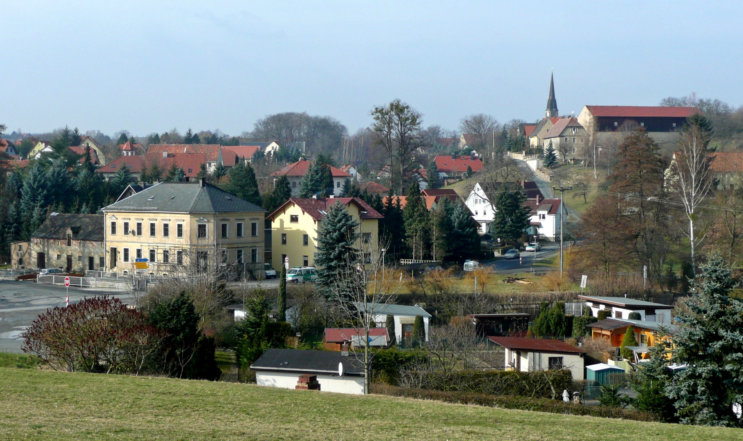 This image shows Friedrichswalde, a small village (Municipality subdivision of Bahretal) near Pirna in Saxony.